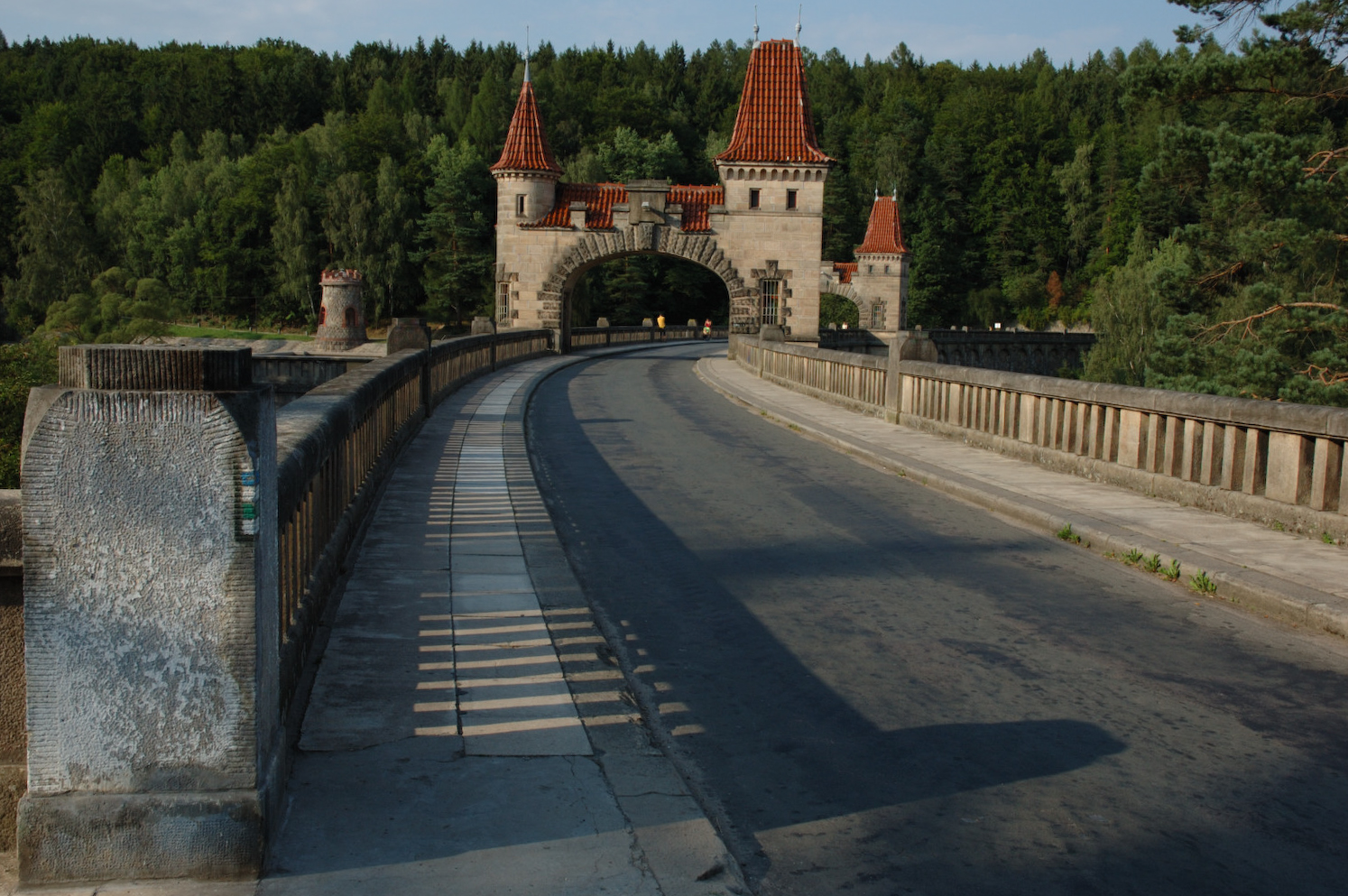 Reservoir dam Les Království, Trutnov District, Czech Republic